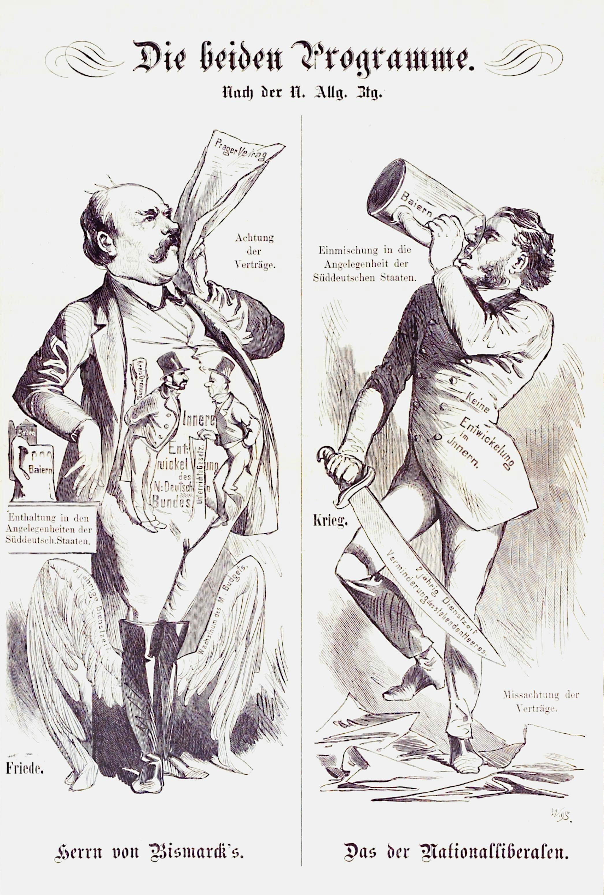 Karikatur, Kladderadatsch